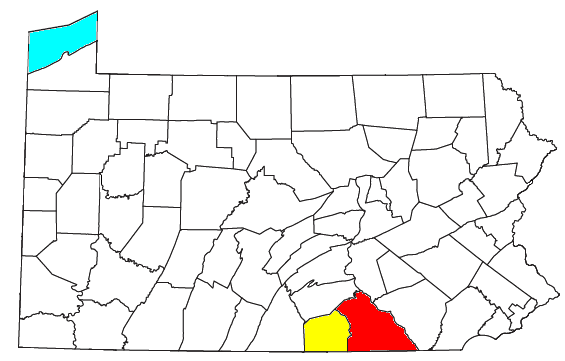 Locator map of the York-Hanover-Gettysburg Combined Statistical Area in the southern part of the U.S. state of Pennsylvania. The two components of the CSA are colored separately: York-Hanover Metropolitan Statistical Area: red Gettysburg Micropolitan Statistical Area: yellow